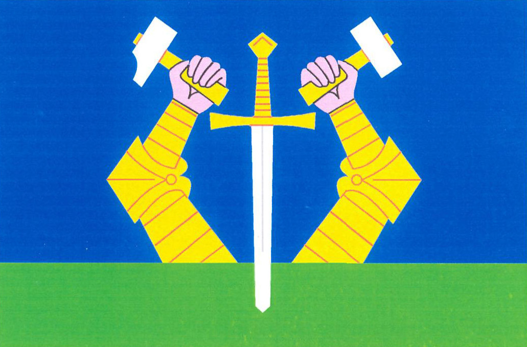 Municipal flag of Hory village, Karlovy Vary District, Czech Republic.